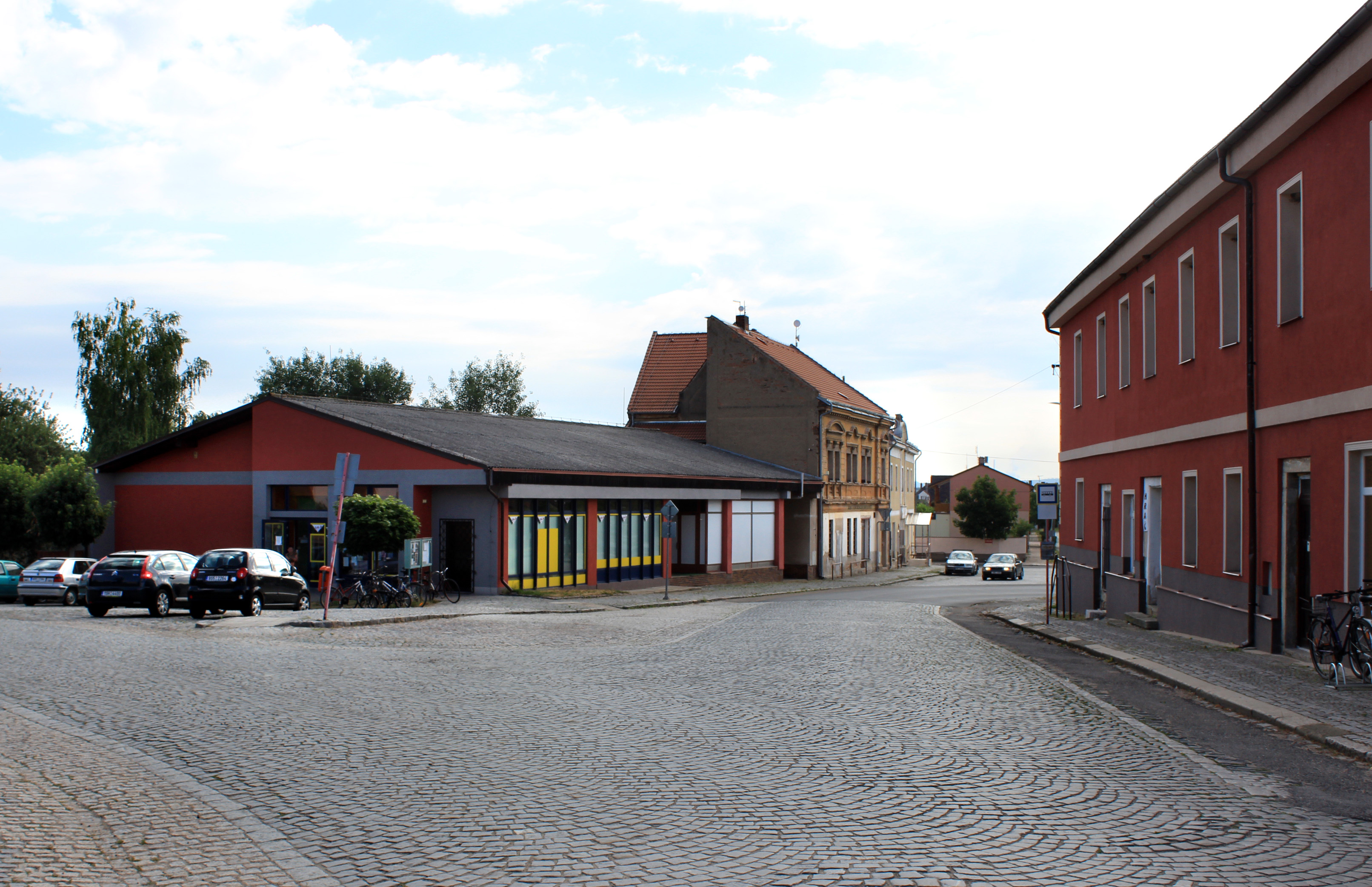 Náměstí square in Starý Kolín, Czech Republic.